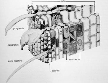 Life stages of citrus nematode